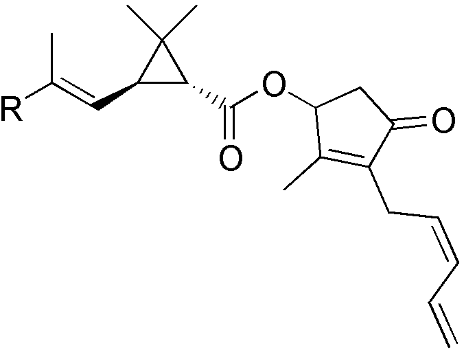 Chemical structure of pyrethrins created with ChemDraw.